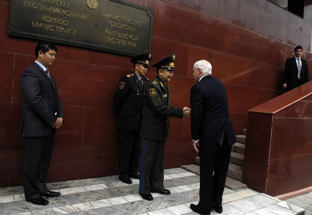 Deputy Minister of Defense of Kyrgyzstan Gen. Orauzbayeu greets Secretary of Defense Robert M. Gates in Bishkek, Kyrgyzstan, June 5, 2007.